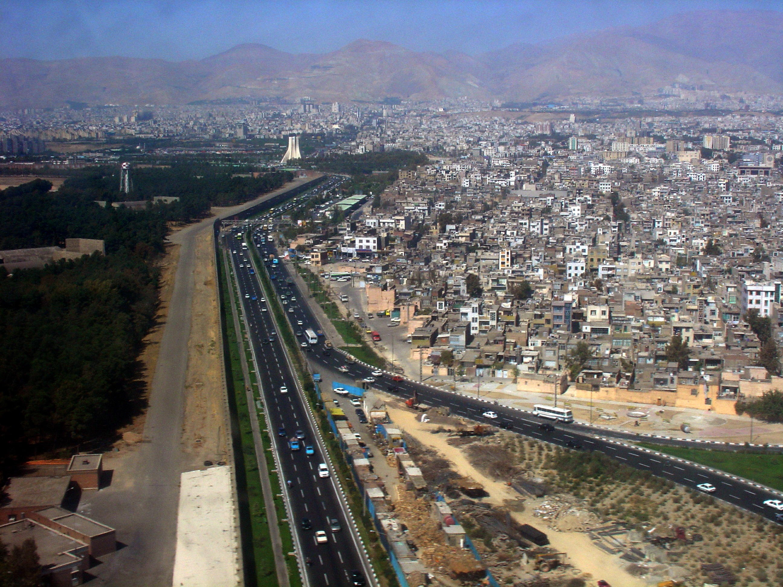 A view of Azadi Tower of Tehran from a landing airplane, Tehran, Iran